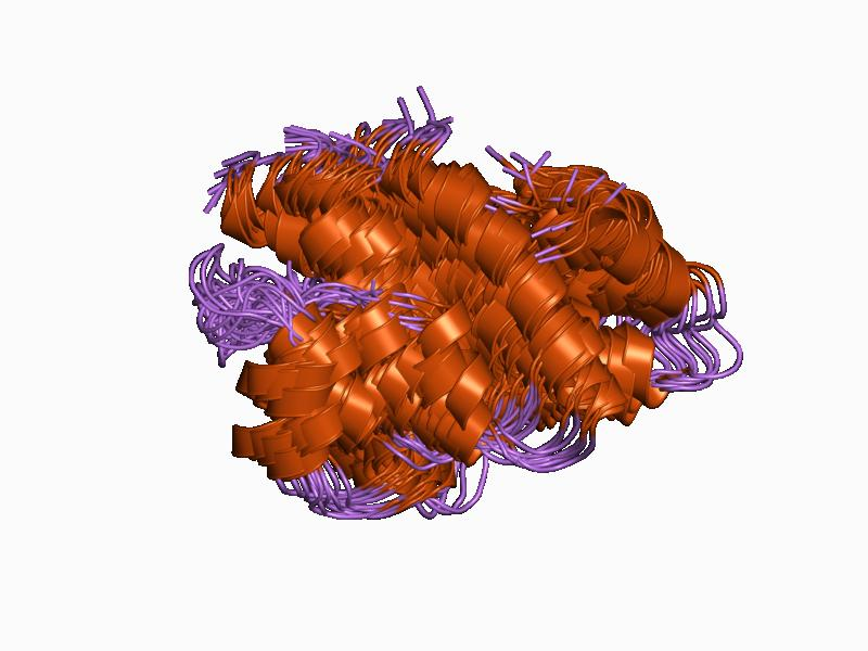 Cartoon representation of the molecular structure of protein registered with 1c5a code.